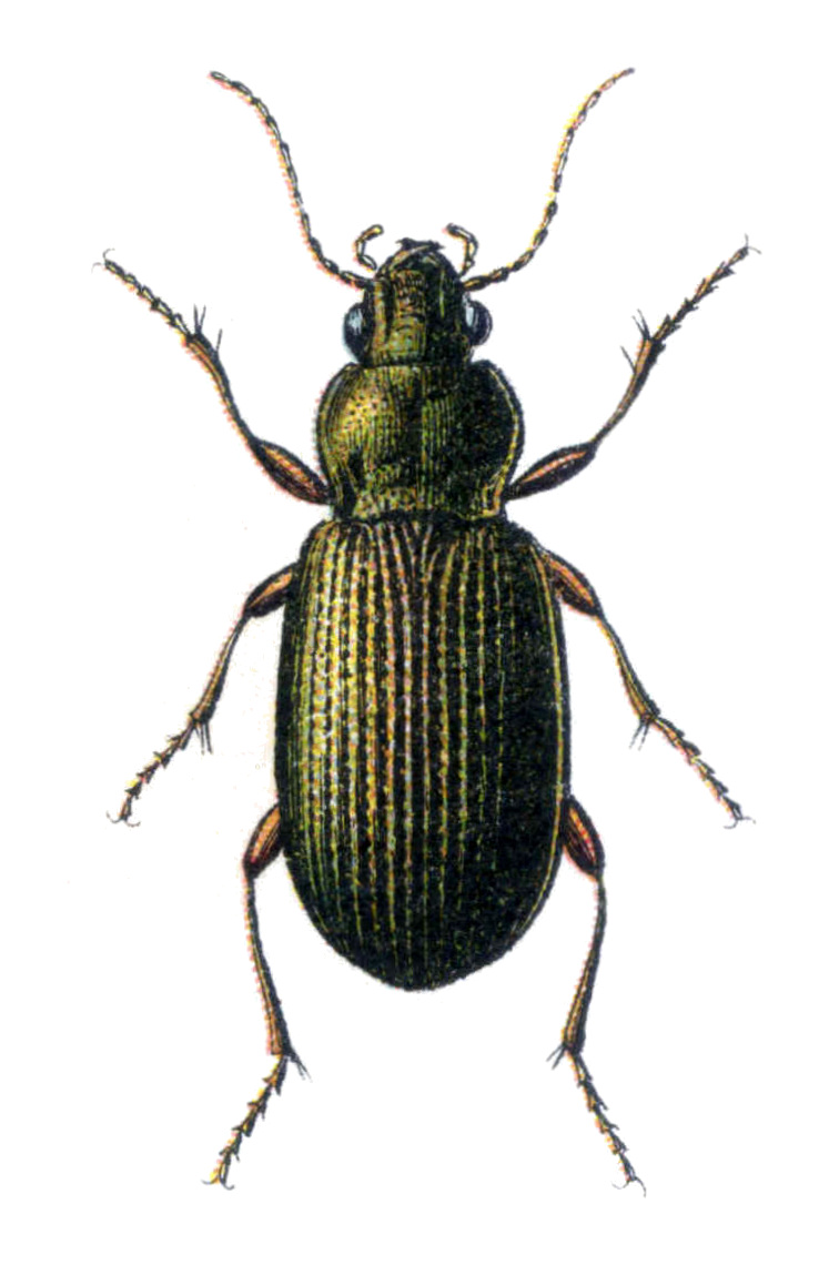 Pogonus chalceus